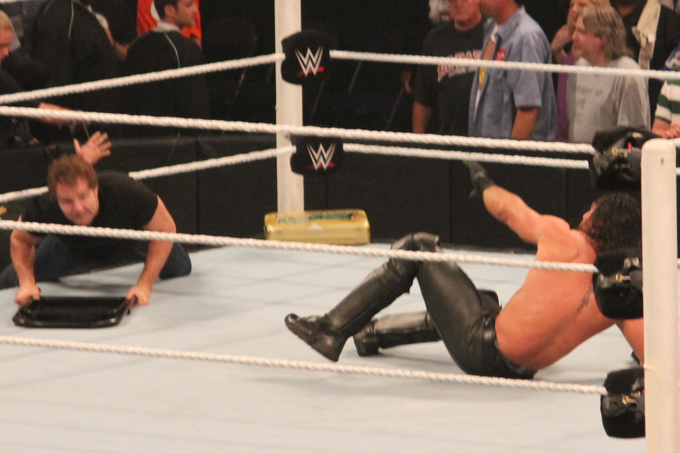 Dean Amrbose attacking Seth Rollins during Night of Champions on September 21, 2014. Cropped from original.